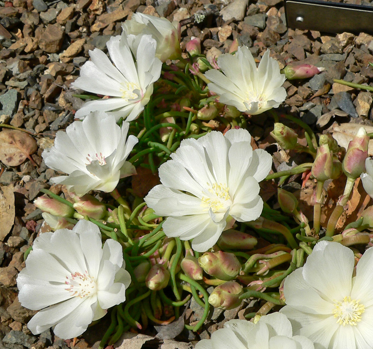 Lewisia rediviva at the University of California Botanical Garden, Berkeley, California